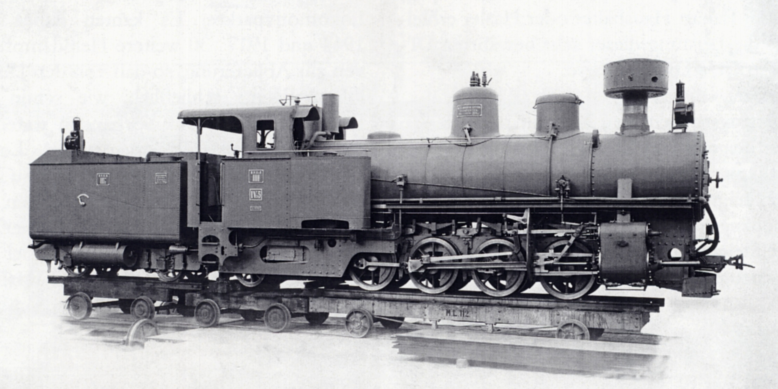 Bosnisch-Herzegowinische Landesbahnen Class IVa5, later Yugoslavian States Railway Class 83, works photograph